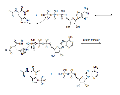 Reaction of Histidine Kinase